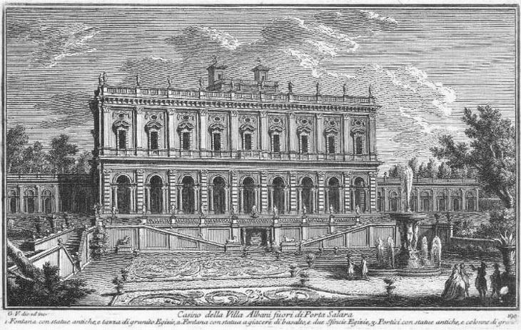 1) Fountain with ancient statues and Egyptian granite cup; 2) Lying statue between two sphinxes; 3) Porticoes with statues and granite columns (in the final arrangement of the collection, the portico housed statues of ancient Roman emperors).